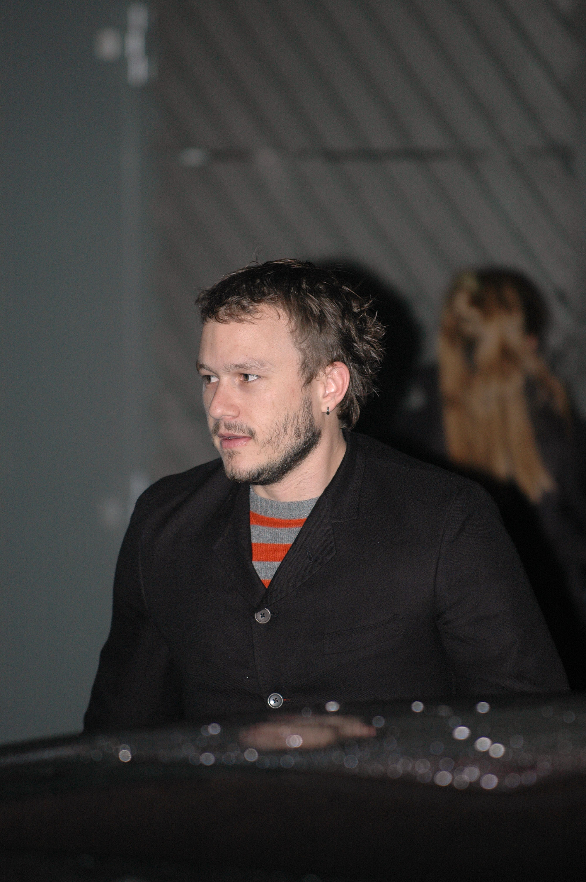 Heath Ledger at the press conference for his movie "Candy" at Hyatt Hotel, Potsdamer Platz, Berlin.